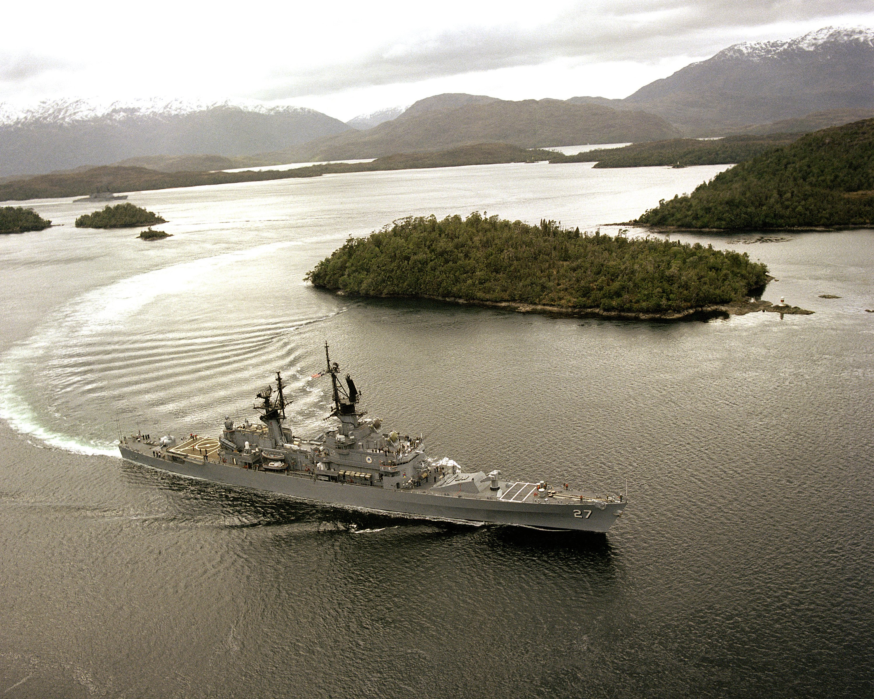 The U.S. Navy guided missile cruiser USS Josephus Daniels (CG-27) maneuvers around an island as it passes through the Straits of Magellan en route to Punte Arenas, Chile, on 1 July 1990, during exercise "Unitas XXXI", a combined exercise involving the naval forces of the United States and nine South American nations.